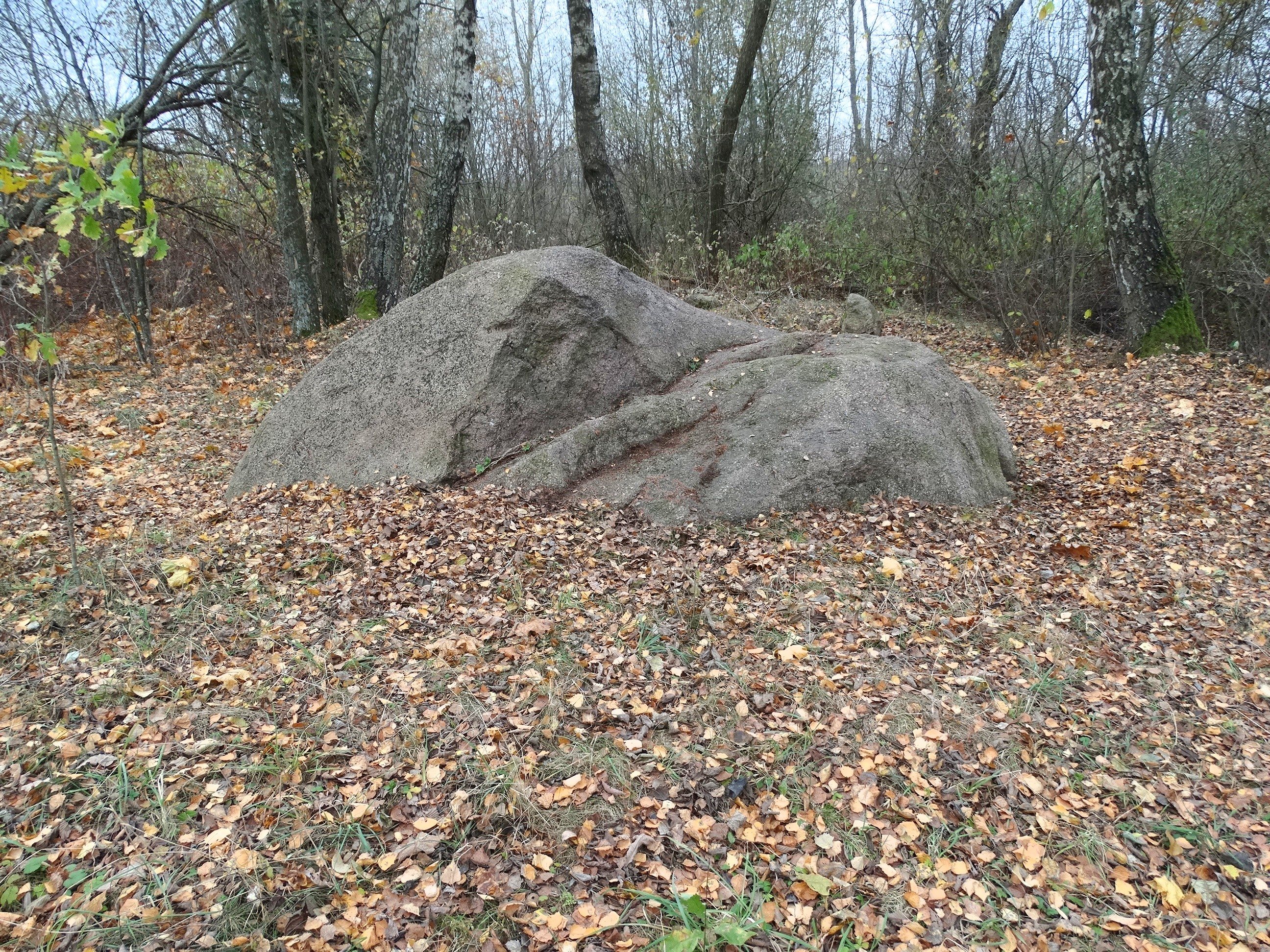 Mythological stone in Laukagalis, Kaišiadorys district, Lithuania